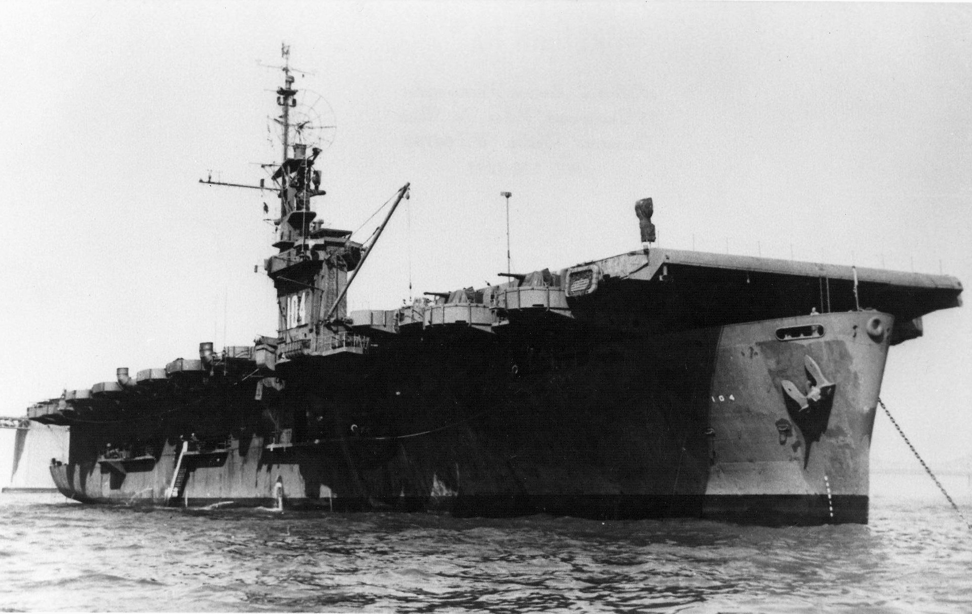 The last U.S. Navy Casablanca-class escort carrier, USS Munda (CVE-104), at anchor in San Francisco Bay. Note her large post-war hull number on the island.